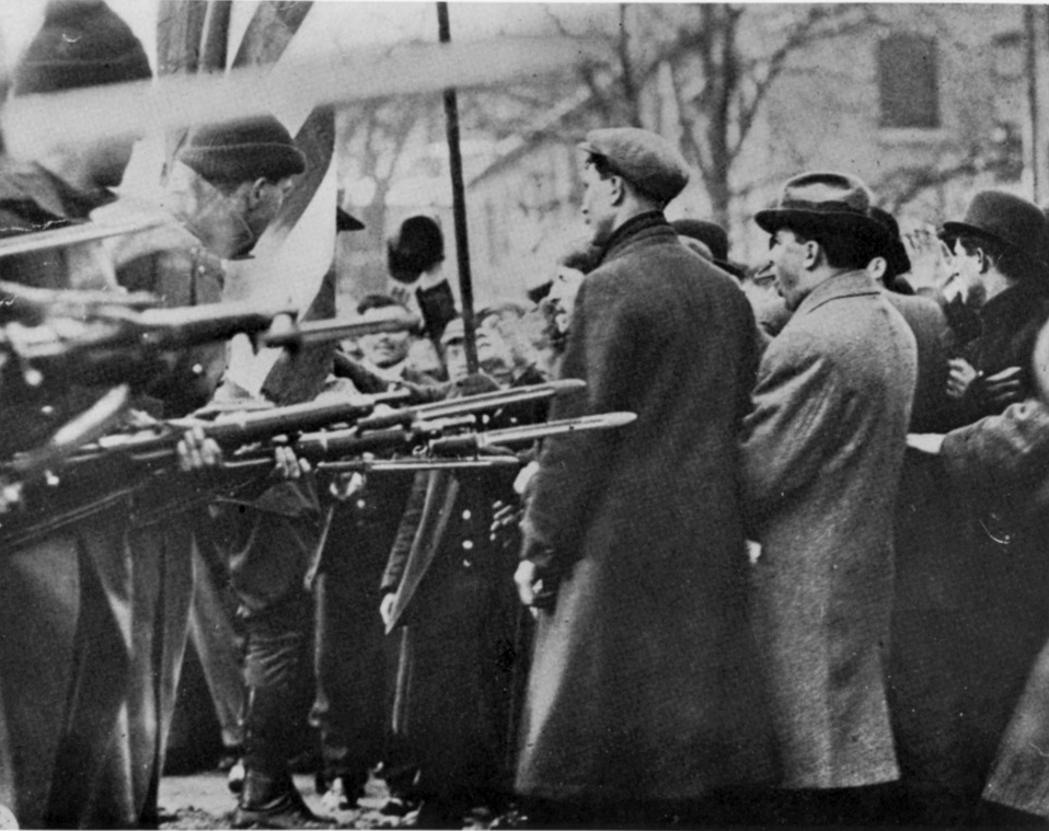 Standoff between militia with bayonets and unarmed strikers, during the Lawrence textile strike in 1912 in Massachusetts.